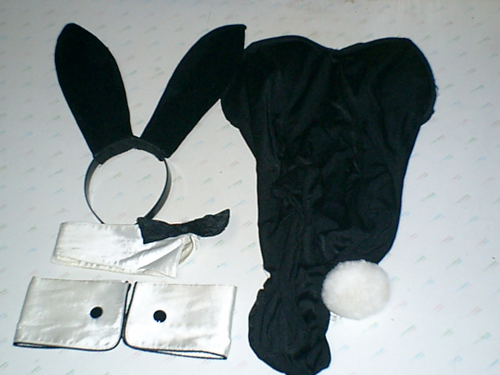 Bunny girl outfit (minus the fishnet stockings and high-heeled shoes) -- includes black bunny ears, white pseudo-shirt-collar with black mini-bow-tie, white pseudo-shirt-cuffs, and low-cut black leotard with white puffy "tail".